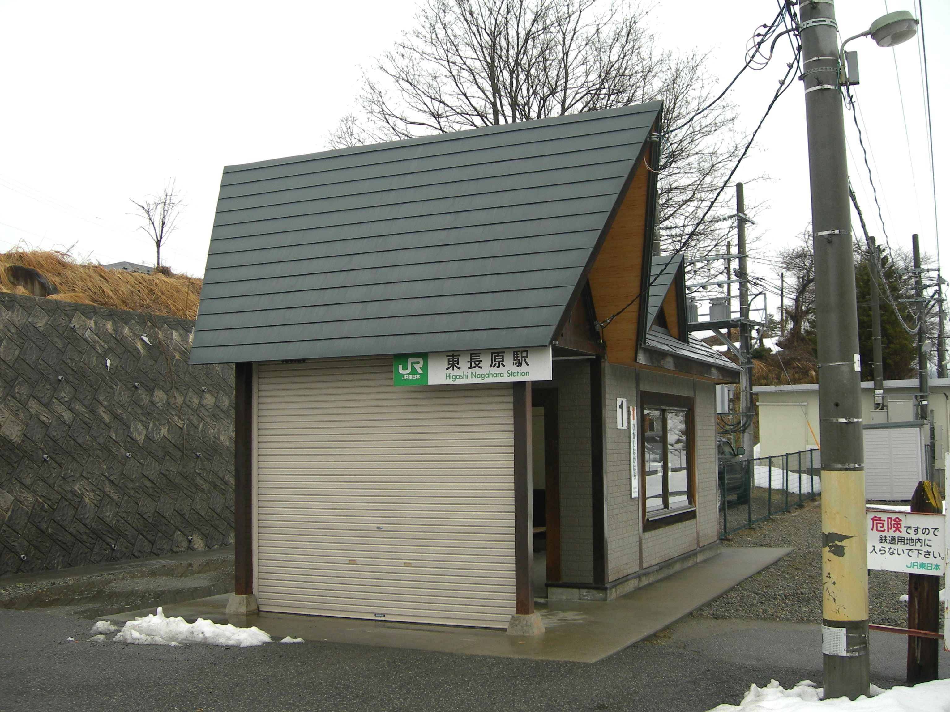 Higashi-Nagahara Station building